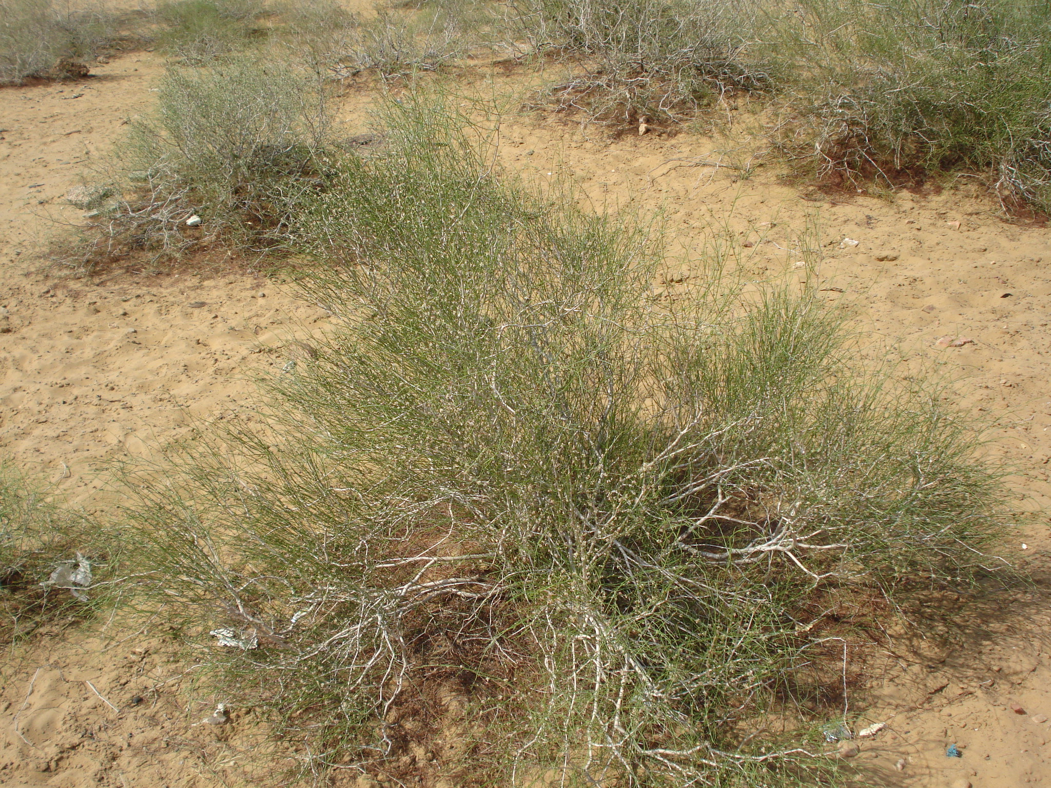 Calligonum polygonoides plant at Bikaner in Rajasthan